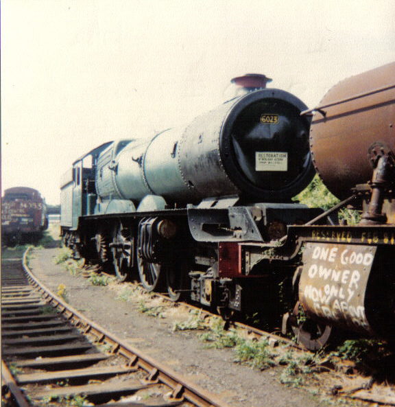 6023 King Edward II photographed at Woodham's Scrapyard, Barry